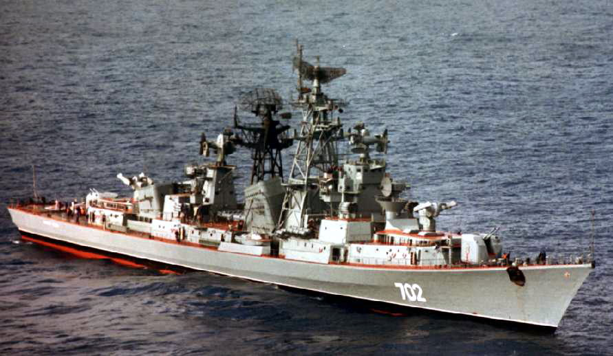 Krasny-Kavkaz, a Kashin Class guided missile destroyer, in 1985